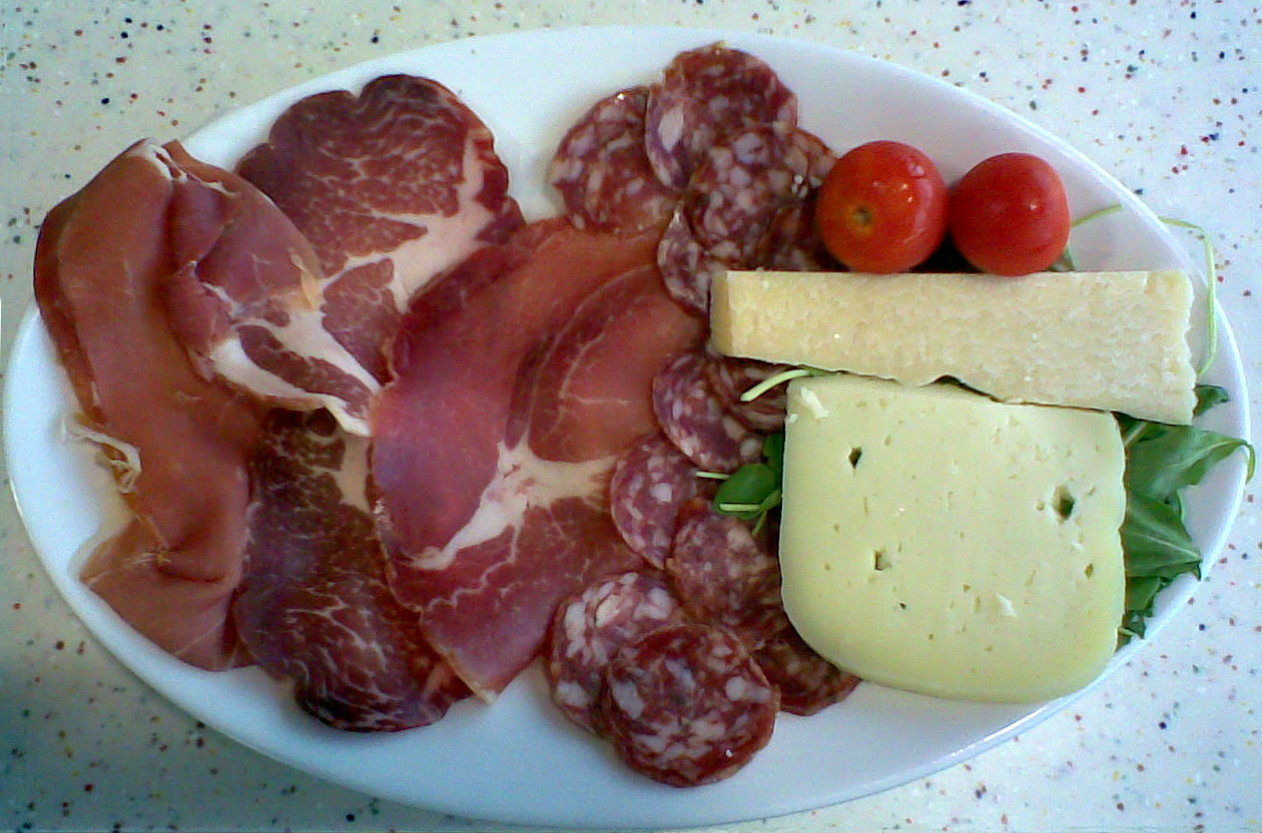 italian food